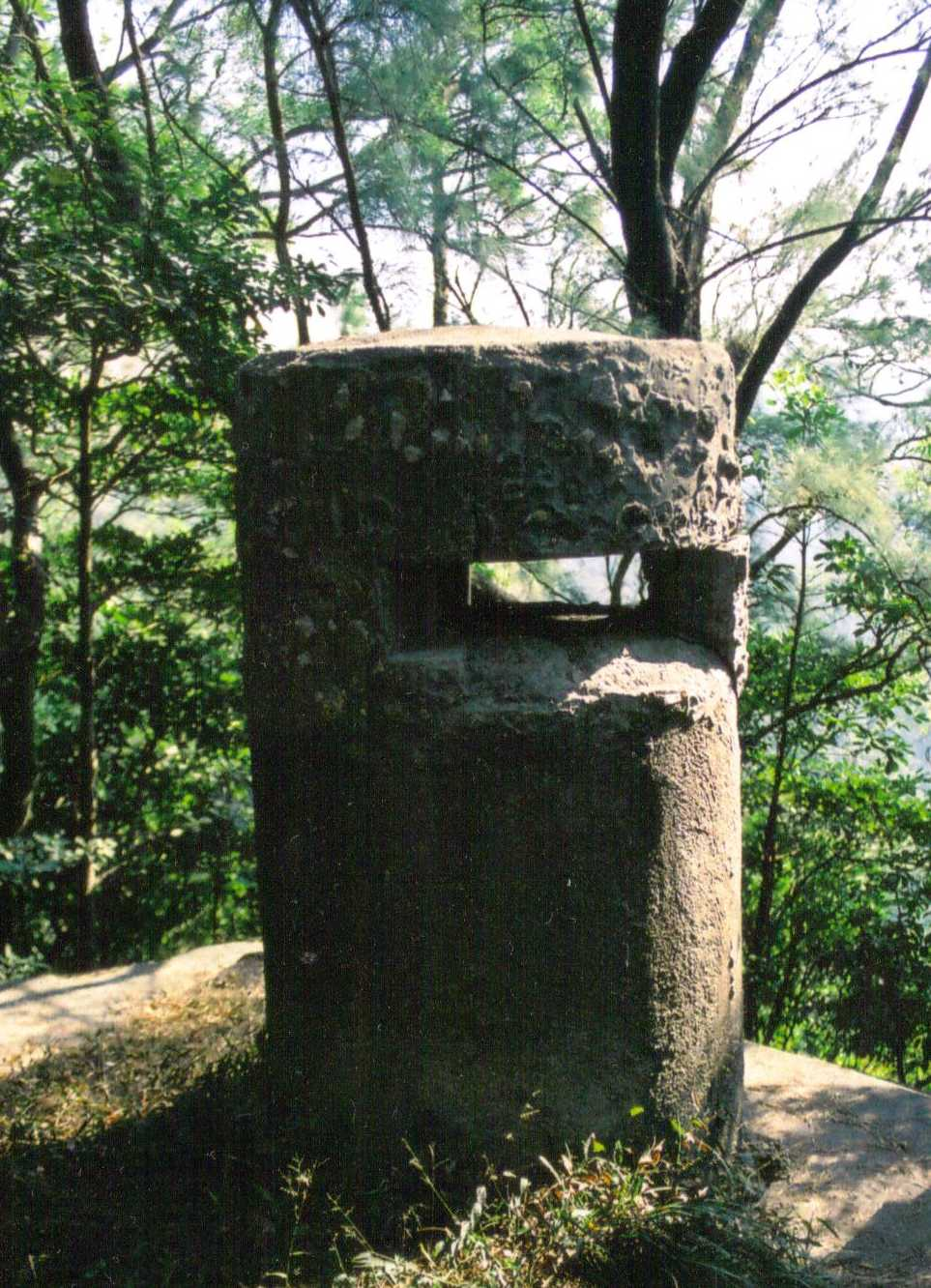 British invasion defenses. Pillbox JLO1, Station 5 of Wong Nai Chung Gap Trail